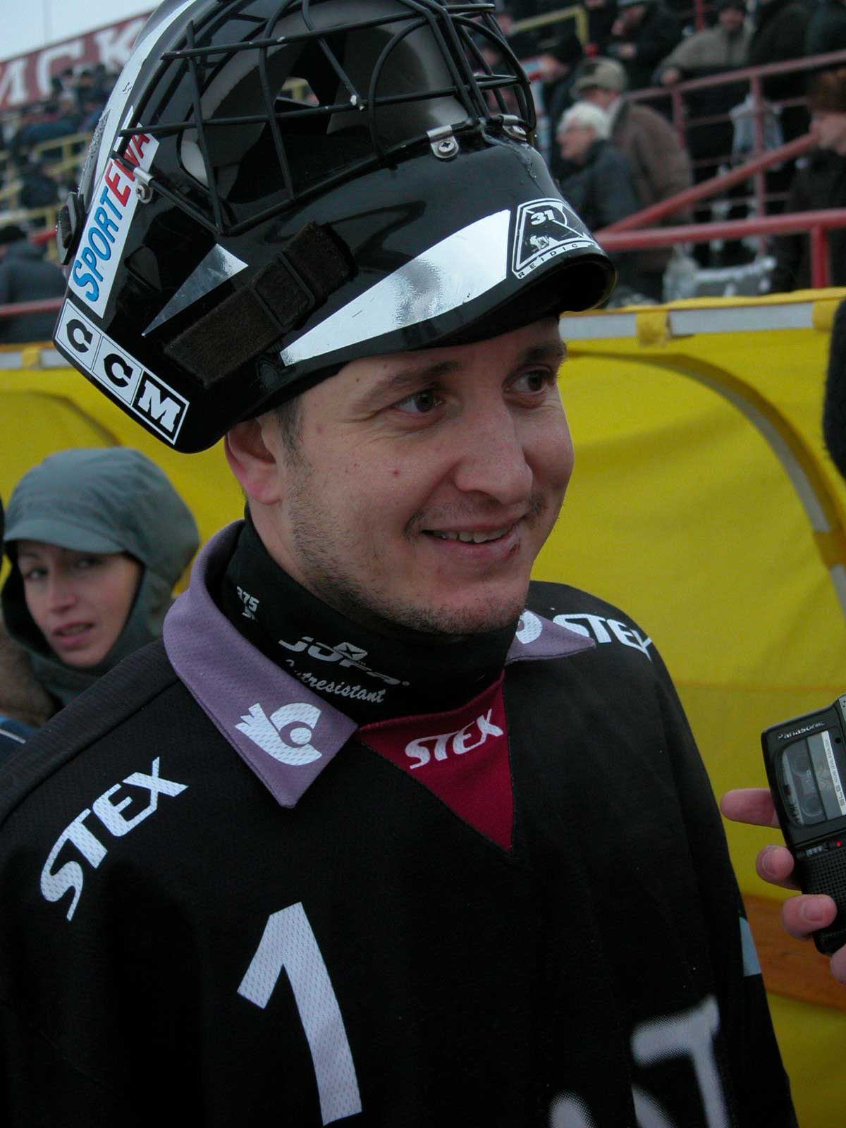 Honored Master of Sports of Russia in bandy, two-time world champion - Ryabov Vyacheslav Gennadievich